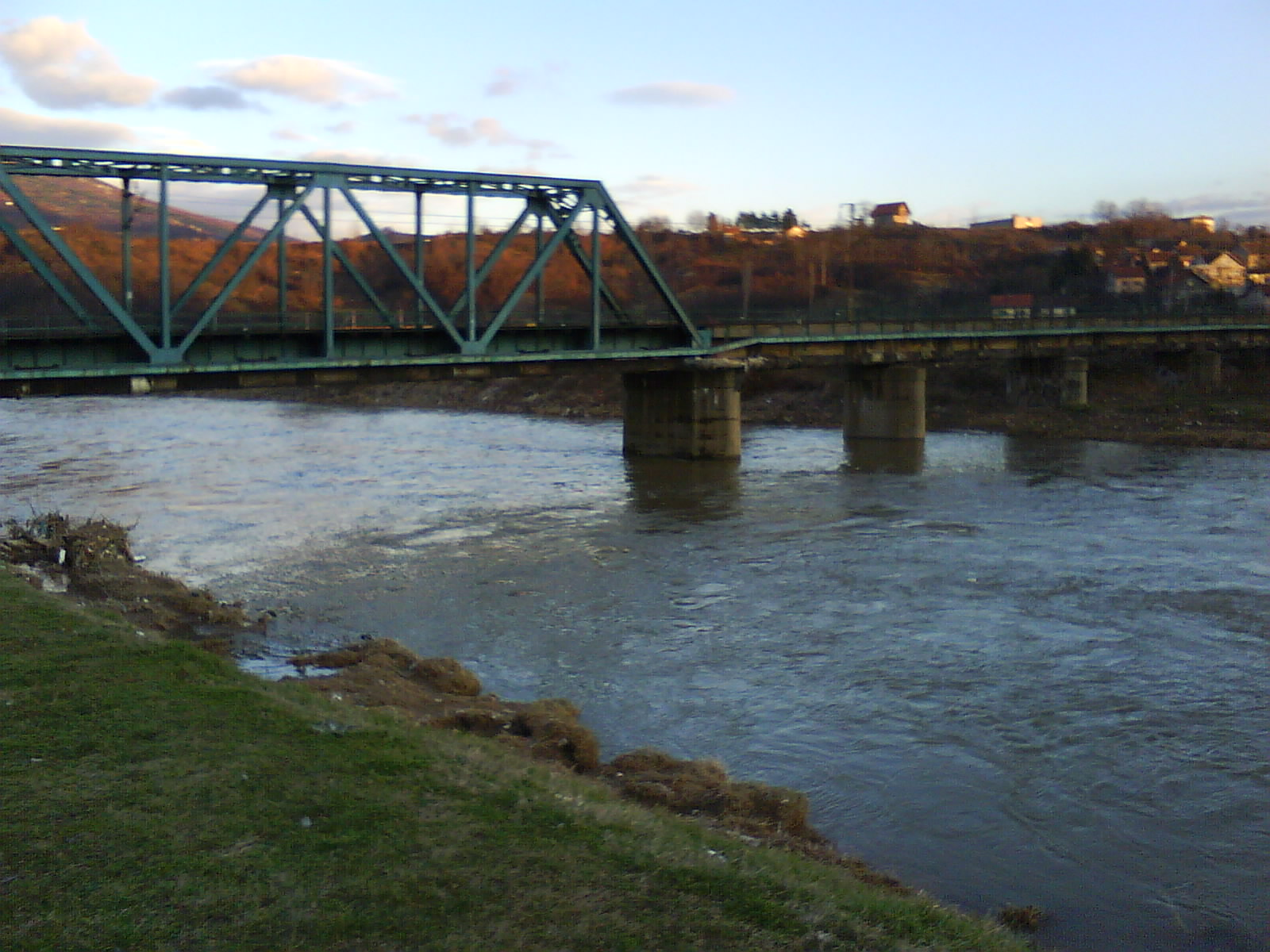 city of Zenica